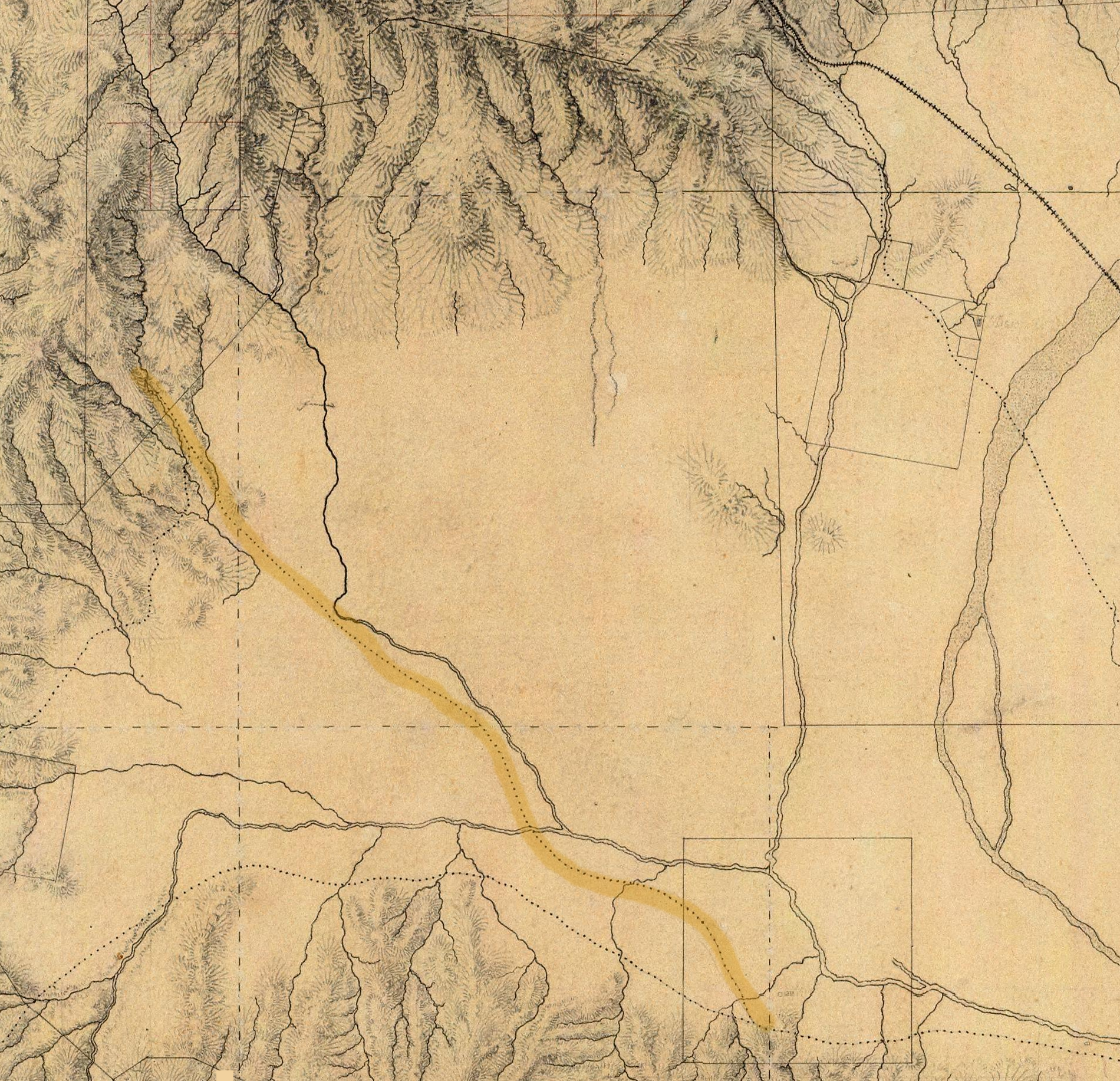 Detail of the western San Fernando Valley, from a manuscript map of Los Angeles and San Bernardino topography, 1880, by William Hammond Hall, Office of the State Engineer, California. The map shows the route (red) of the Butterfield Overland Mail stagecoaches from Rancho Los Encinos (or Rancho El Encino) to the pass over the Simi Hills (left) in what is now Santa Susana Pass State Historic Park. The Santa Susana Mountains (left top) and its tributaries to the Los Angeles River are also shown.